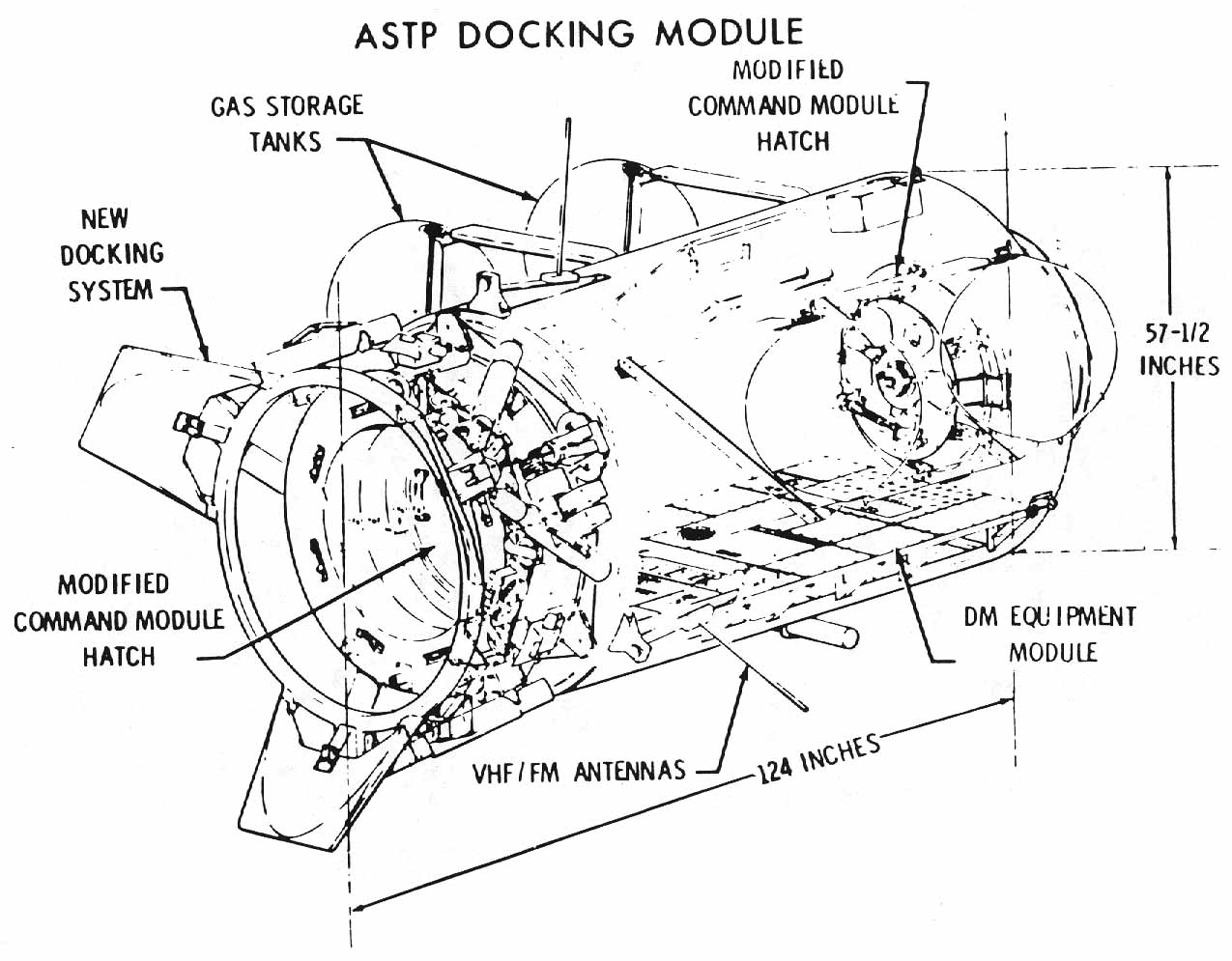 ASTP Docking Module from Prelaunch Mission Operation Report No. M-966-75-01, July 7, 1975, page 12